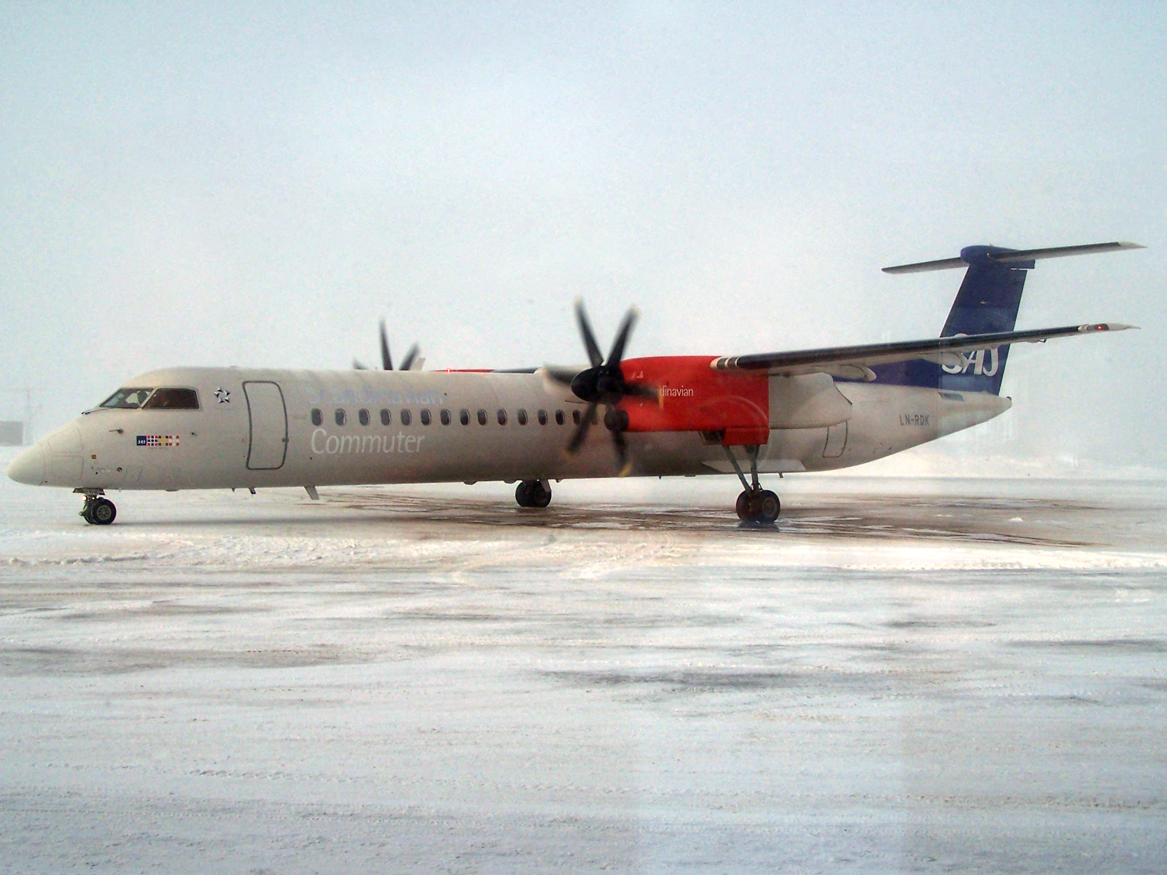 De Havilland Canada DHC-8-402Q Dash 8 taxing out from Växjö Airport.